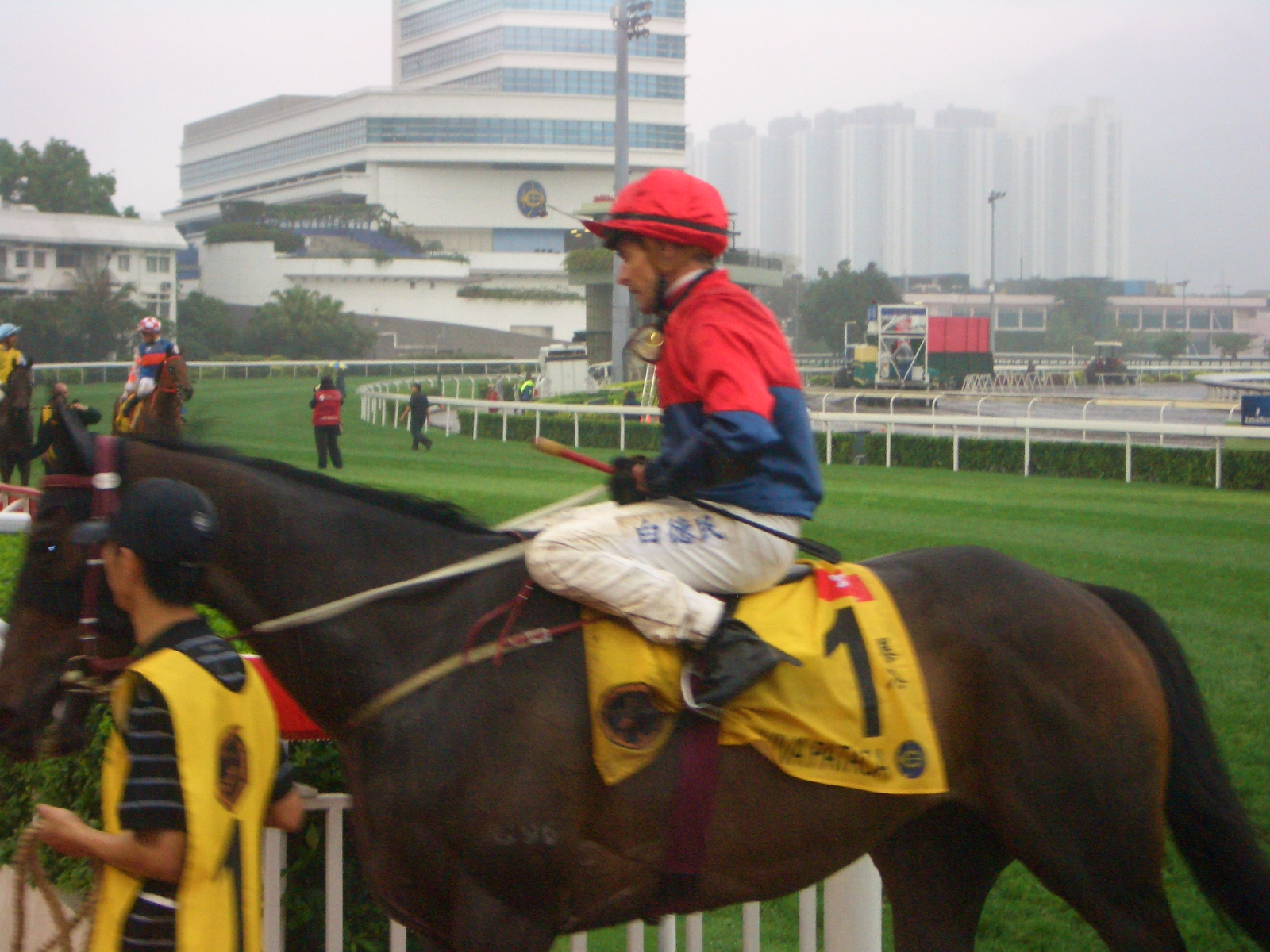 Viva, a thoroughbred racehorse with 6 Group one winner